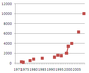 Created this chart based on the data I gathered here